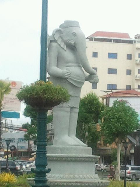 Ganesh statue sen monorom park phnom penh